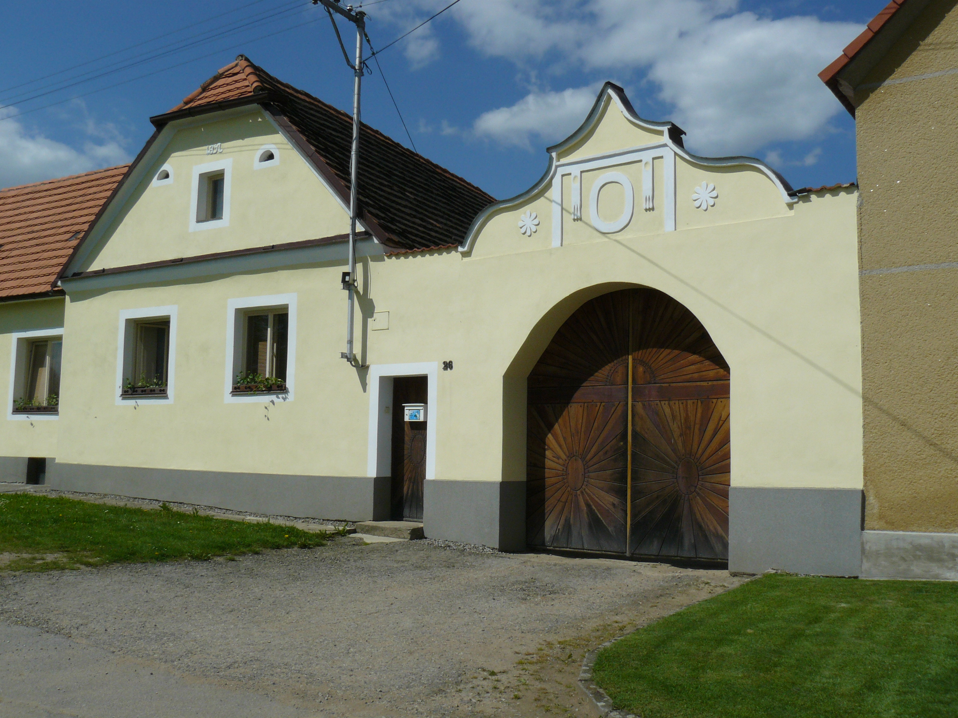 House No 26 in Krtely, part of Malovice municipality, Prachatice District, South Bohemian Region, Czech Republic.